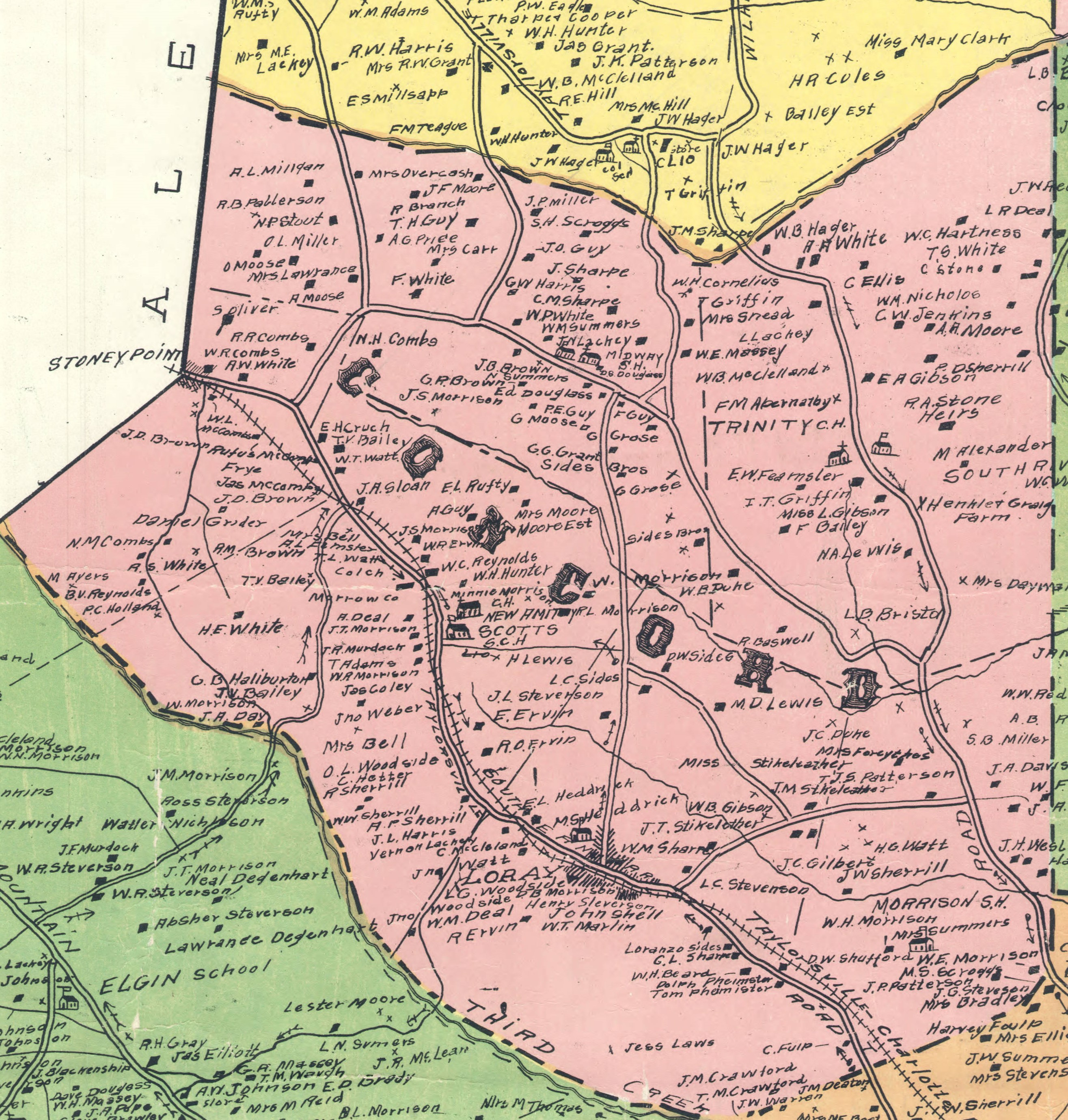 "Drawn by N.E. Kinney C.E. Lexington N.C. 1917. George F. Cram Company, Chicago." Abstract Printed in color, mounted on linen. Townships designated by color. Map shows school districts, mills, churches, retail stores, rural mail routes, African American churches, townships, landowners, schools, African American schools, dairies, tenants, and railroads including the Southern Railway and the "Proposed Statesville Air Line Railway." Townships shown include New Hope, Union Grove, Eagle Mills, Sharpsburg, Olin, Turnersburg, Concord, Bethany, Cool Springs, Shiloh, Statesville, Chambersburg, Fallstown, Barringers, Davidson, and Coddle Creek.